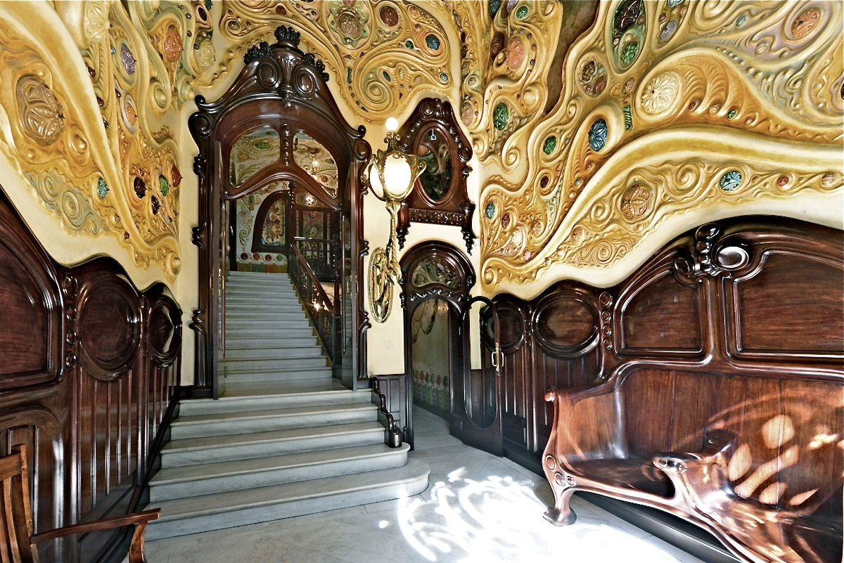 Like a tribute to Gaudí, the Casa Comalat contains many elements of Gaudí's architecture, and is one of the most original examples of home-grown art nouveau in Barcelona: modernisme. Two distinct façades, both of them showing the influence of the curve redolent of the work of the Reus-born maestro, arouse our curiosity to go and take a closer look at this beautiful and unique building. The architect Salvador Valeri i Pupurull worked on the Casa Comalat from 1906 to 1911, and was clearly influenced by Gaudi's organic forms. Dating from the final phase of the "modernista" era, this is a highly original building comprising two façades with a common element: the Gaudiesque curve. The main façade, which overlooks Barcelona's Avinguda Diagonal, is made of stone and is more symmetrical and regular in shape. At street level, there is an interesting wrought-iron doorway and, above it, a central gallery surmounted by a pinnacle. At the top, a series of openings cut into the façade and surrounded by stone garlands jut out above the remaining curved balconies with their floral motifs. The building is surmounted by a turret in the shape of a harlequin's hat clad in glazed green ceramics. This colourful element dominates the rear façade of the building which overlooks Carrer Rosselló, and is freer and more informal in style. The irregular wooden galleries give the façade a dynamic look, and the ceramics that decorate the entire façade lend a splash of colour. The parabolic arches over the doors on the ground floor give the building its Gaudiesque feel, and are just another example of the beauty of this unique building.